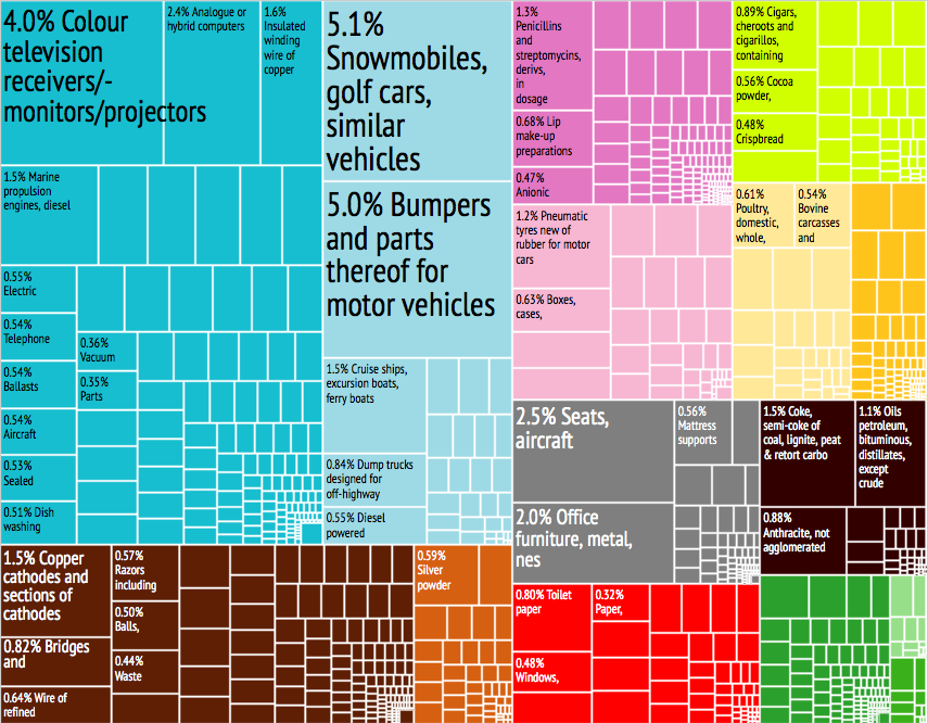 Poland Export Treemap from MIT Harvard Economic Complexity Observatory